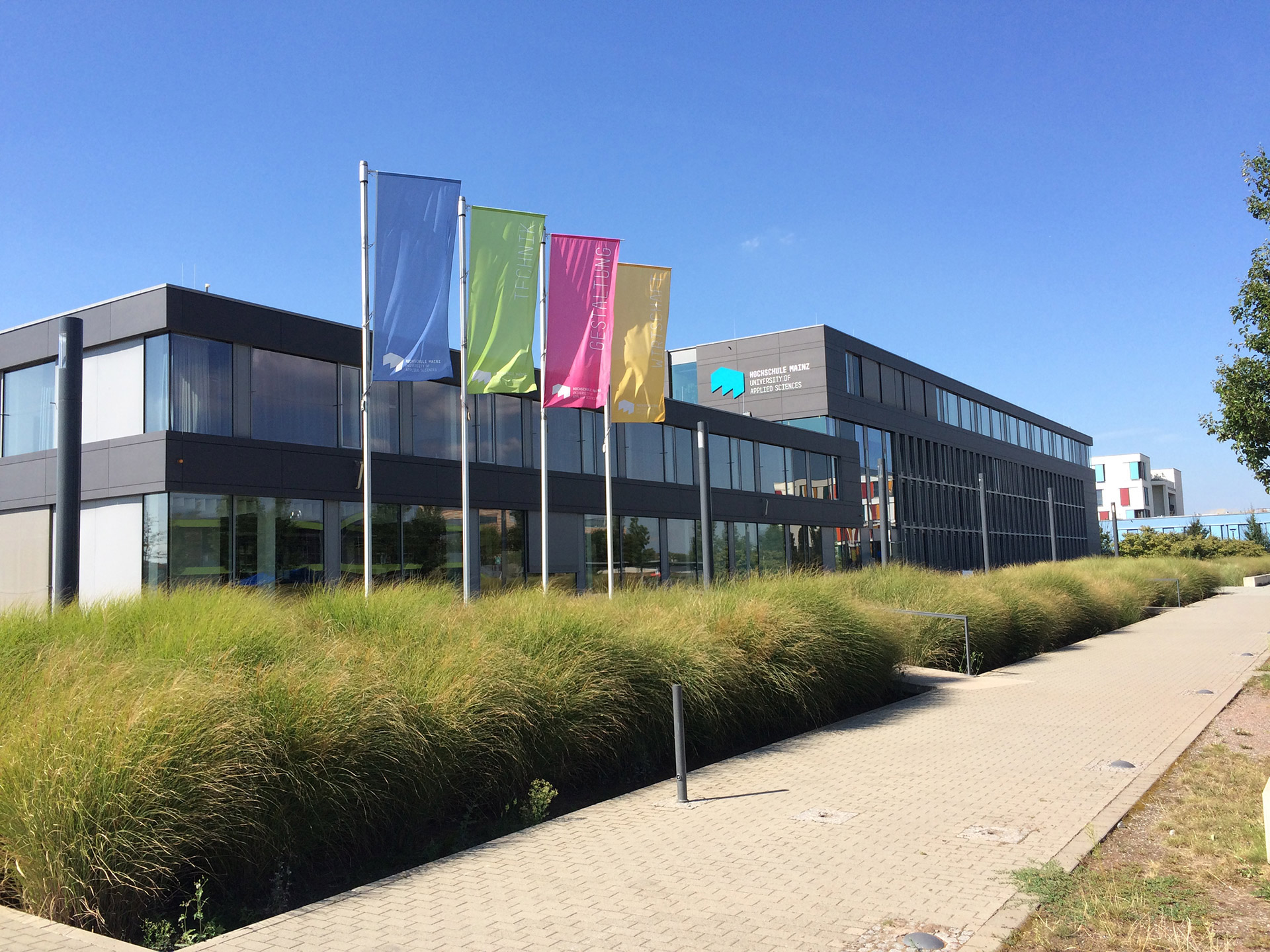 Mainz University of Applied Sciences, Location Campus